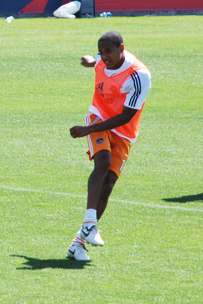 Ricardo Clark